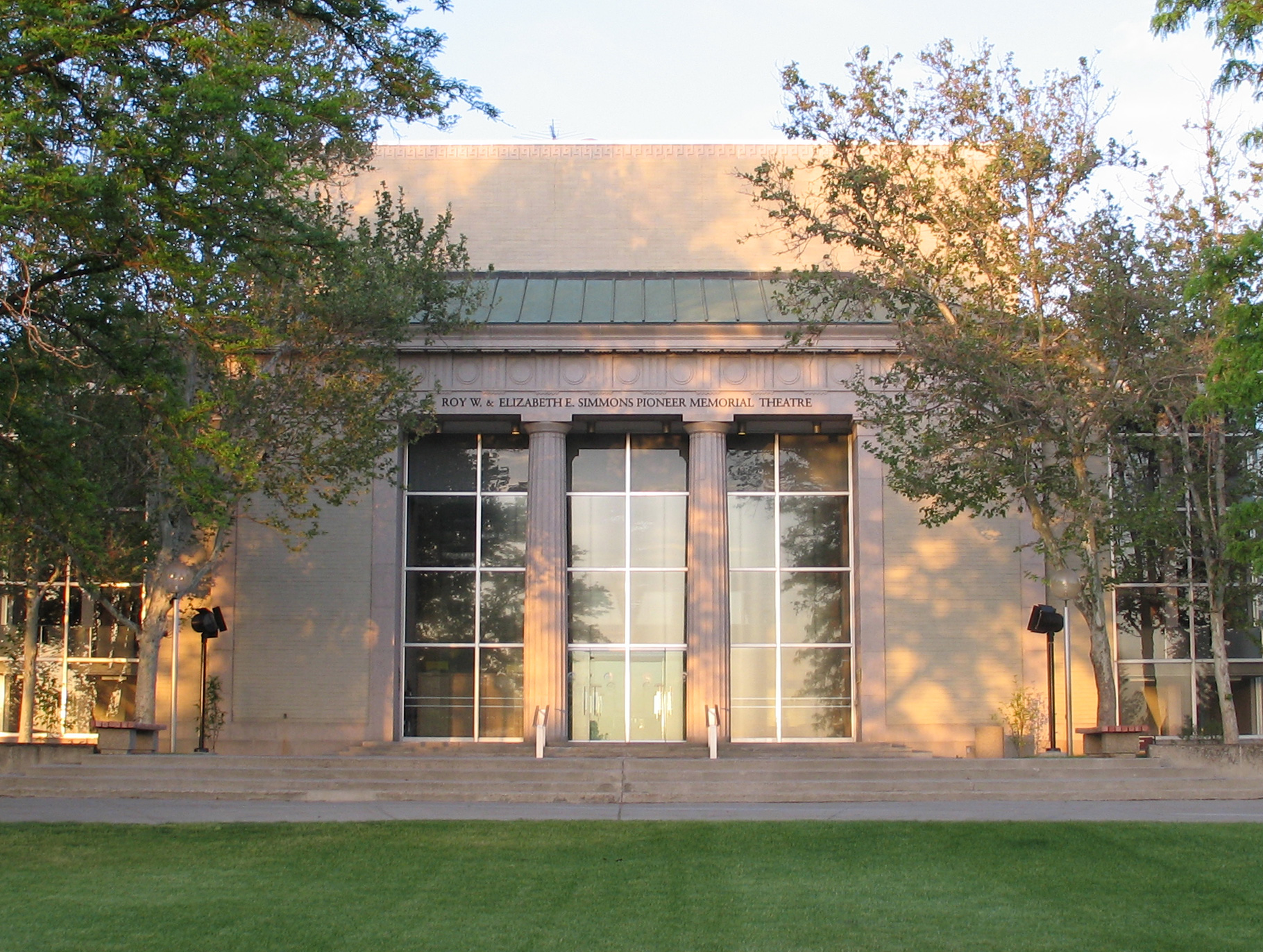 The Simmons Pioneer Memorial Theatre, home of Pioneer Theatre Company, at the University of Utah campus in Salt Lake City, Utah